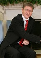 Ferenc Gyurcsány, Prime Minister of Hungary, at a visit to the White House 2005. White House photo.